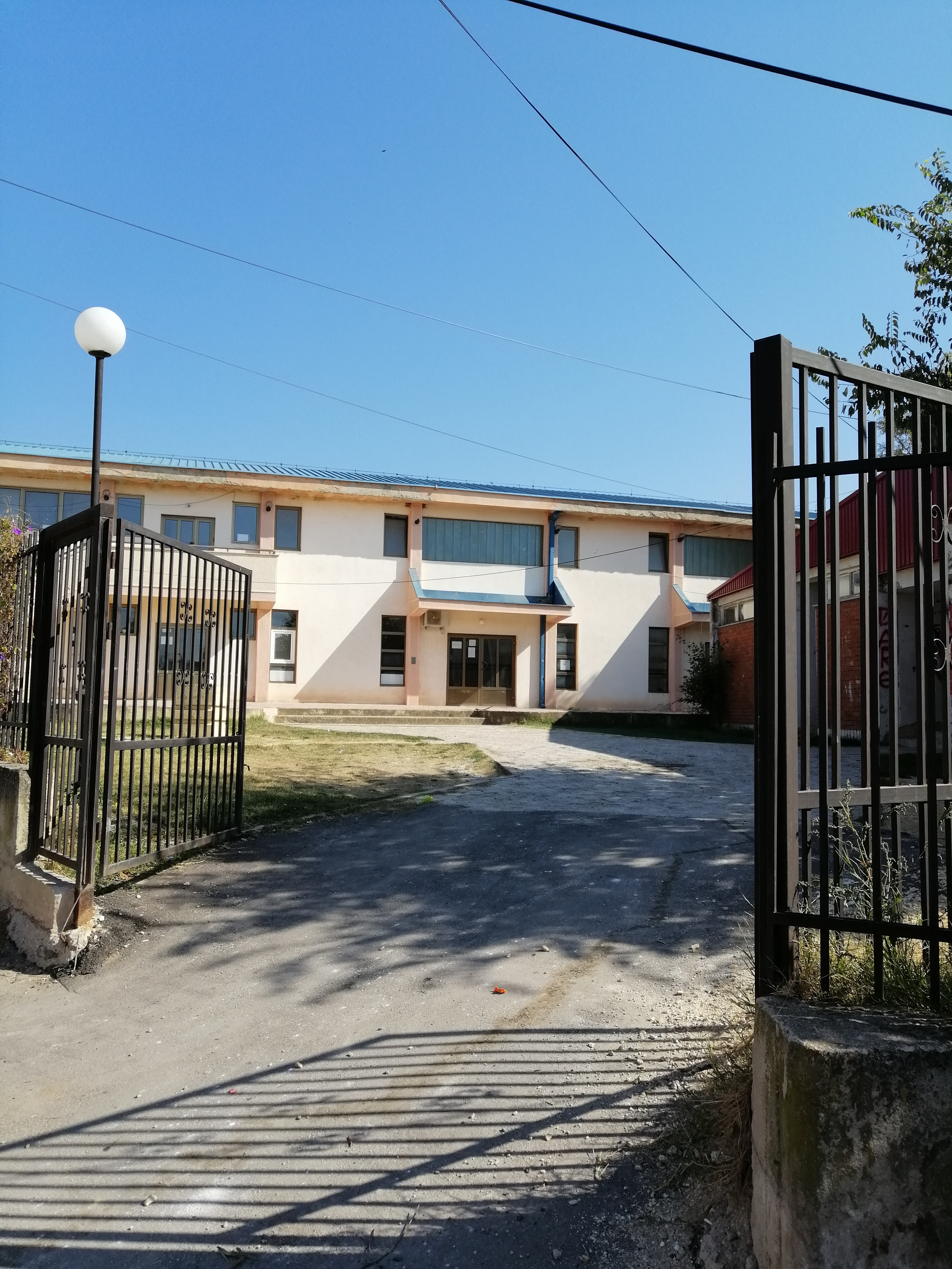 Municipal building of Čučer Sandevo Municipality